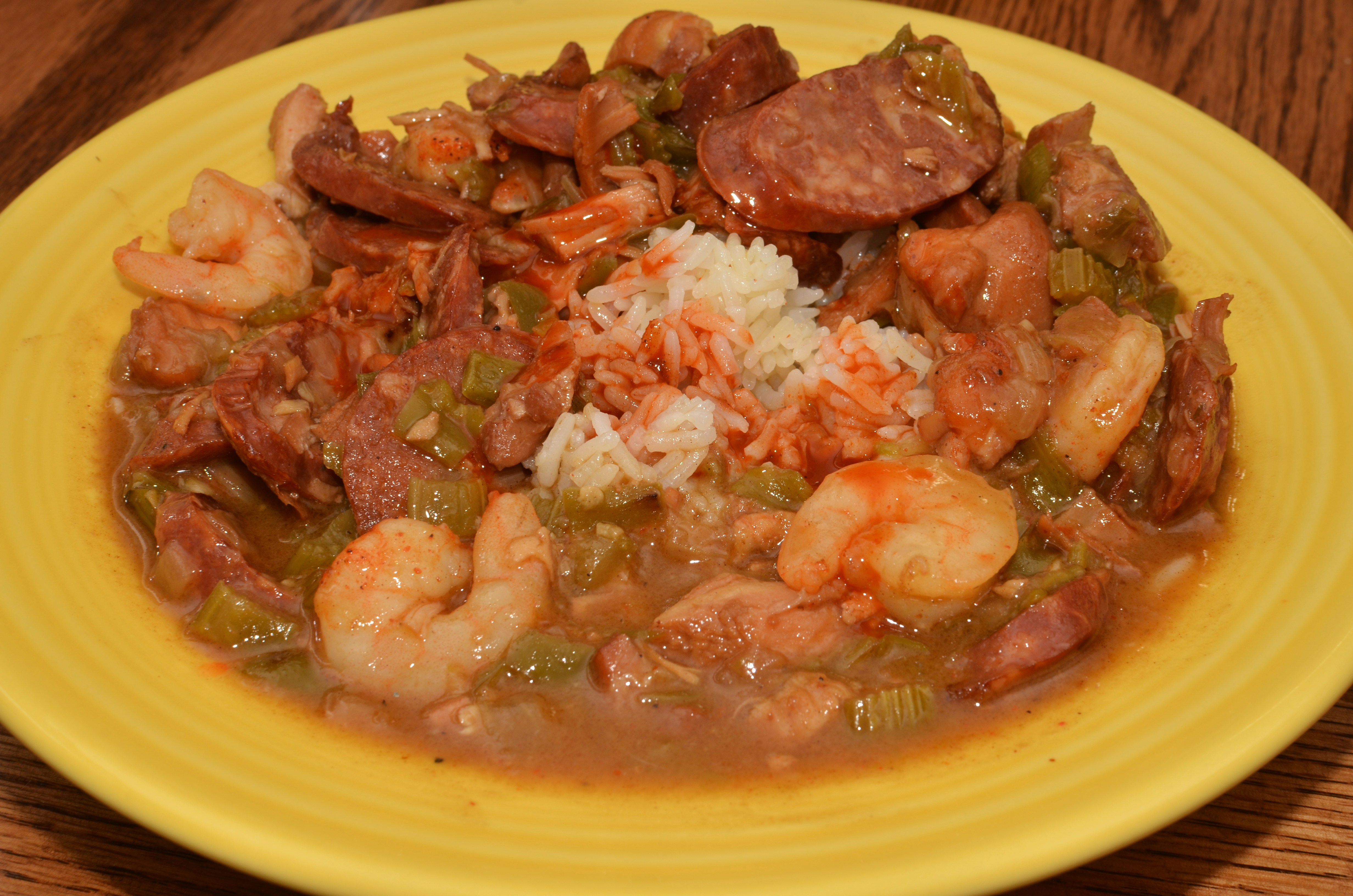 Andouille, shrimp, and chicken gumbo over white rice